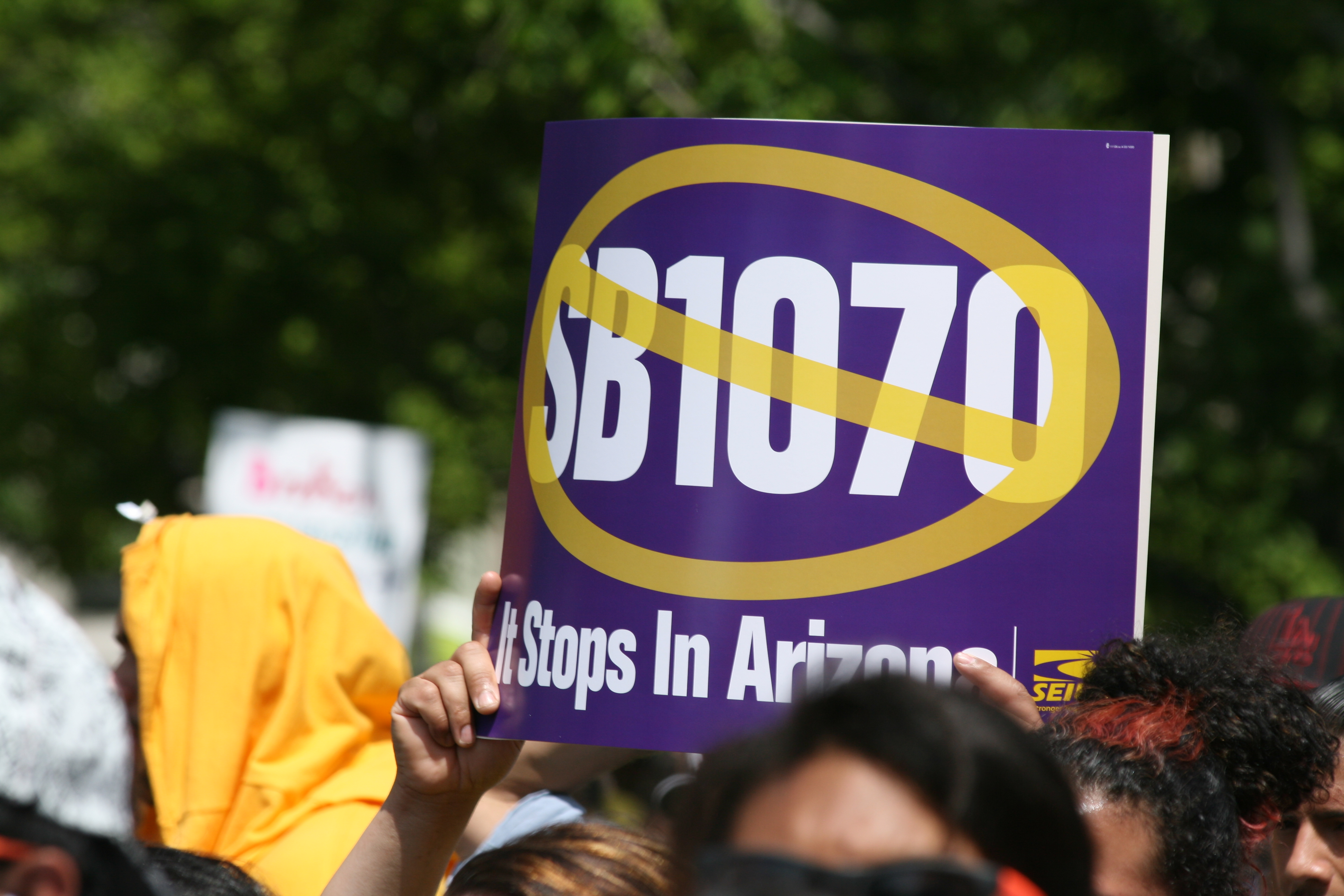 On May 1, 2010 leaders of the immigration reform movement were arrested in Washington DC. At the end of a peaceful demonstration at Lafayette Park, leaders of the immigration reform movement were arrested for a sit-in at the railings in front of the White House in what was intended to be an act of civil disobedience. Set against the background of Arizona's adoption of SB1070, the leaders vowed not to move from the railings until either an immigration reform law was passed or they were arrested. Police arrested the volunteers in a very calm and civil pro-forma manner while the surrounding crowds called on President Obama to take the lead in implementing immigration reform. The speakers said that the Democrat Party, because of the promises it made, especially to the Latino community, during the election, now had a duty to deliver on those promises. The leaders were arrested and placed on board a bus that had been parked nearby. The bus then drove 20-30 feet to the plaza in front of the White House, where each of the arrested leaders was removed one at a time, photographed and videotaped, and then put back on the bus. The bus remained parked for 10 minutes and then drove away, apparently taking the arrested volunteers and leaders to a police station in Anacostia in Washington DC for processing. Once the bus left the crowd dispersed peacefully. One police officer that was overseeing the police activity at the scene said that the organizers of the demonstration had ensured that it was both well organized and controlled.